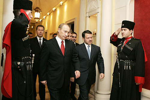 AMMAN. With the King of Jordan, Abdullah II.